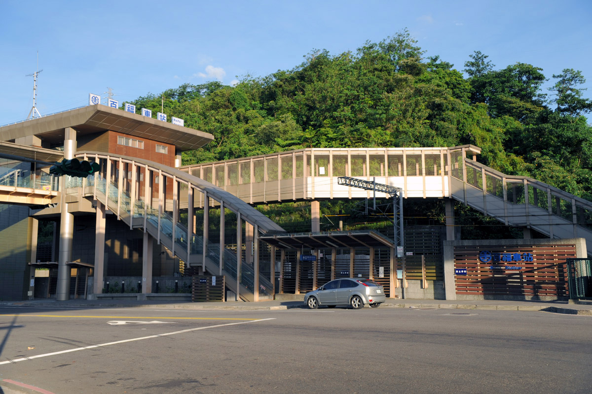 Baifu Station, Taiwan Railway Administration.